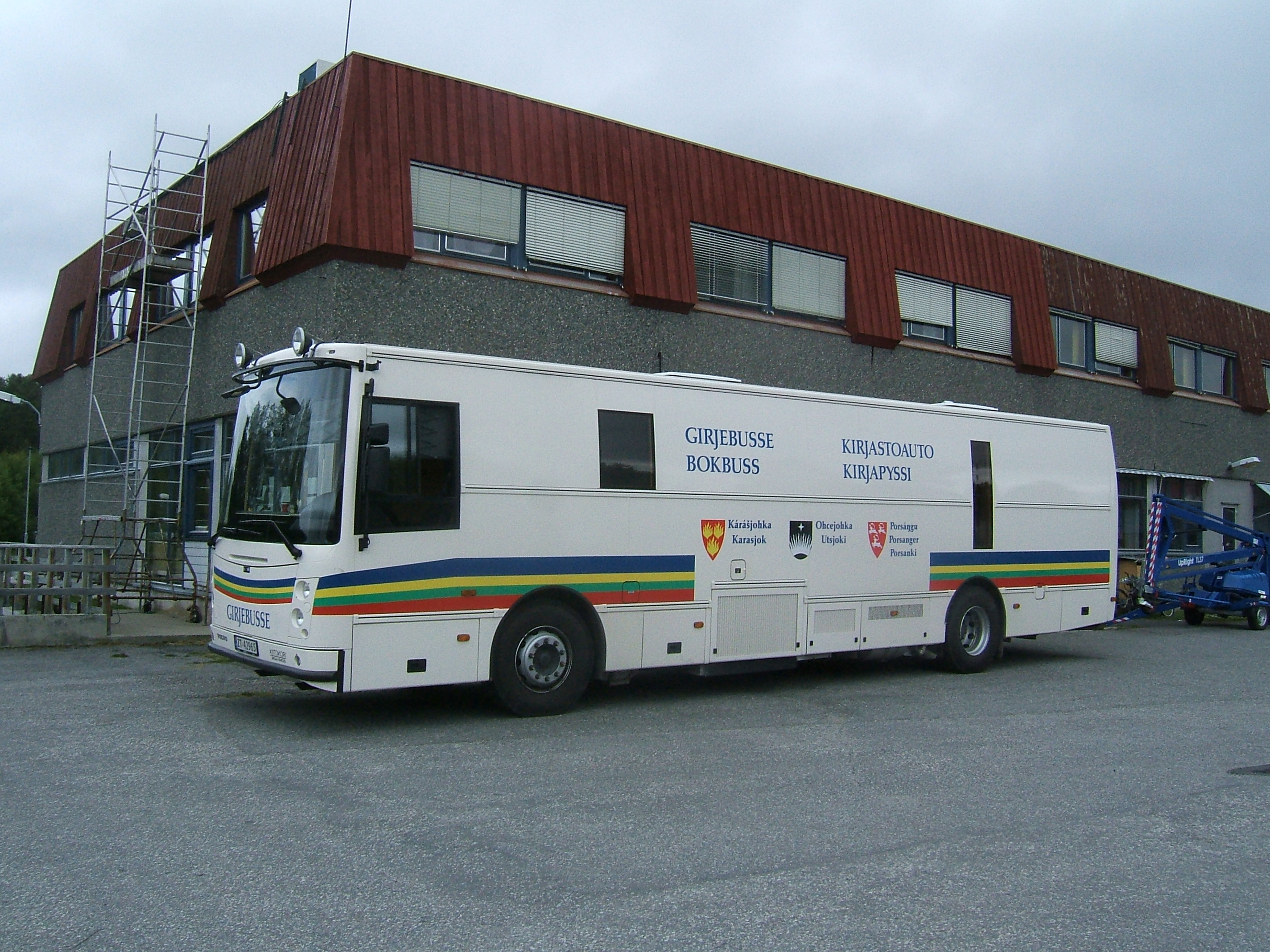 Bookmobile (bokbuss) in Karasjok, Norway, serving the municipalities Karasjok, Porsanger (in Norway) and Utsjoki (in Finland). Text in four languages: Northern Sámi, Norwegian, Finnish and Kven. Original description: International Bibliobus.